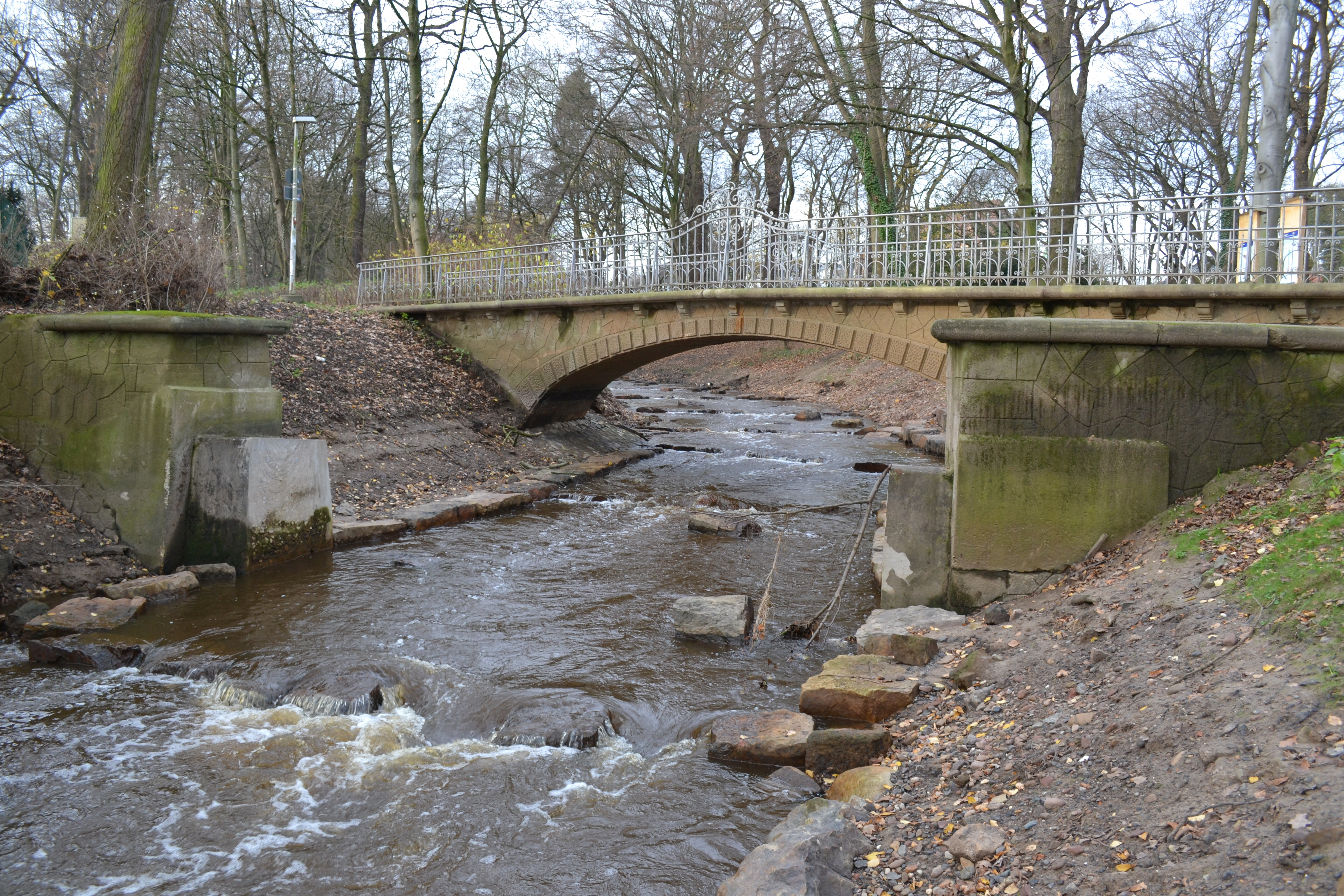 This image shows a heritage building in Germany, located in the North Rhine-Westphalian city Minden (no. 711).